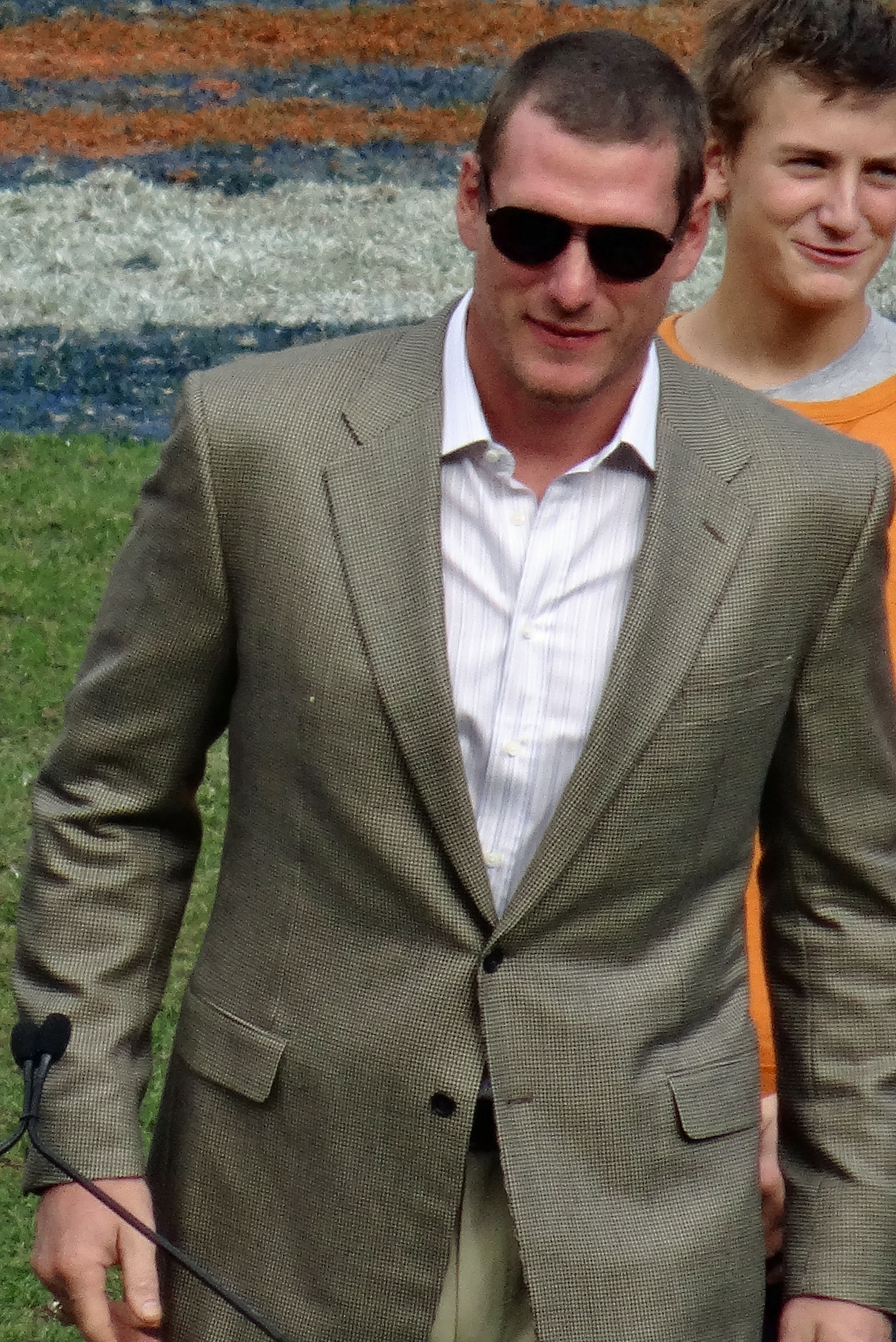 Tom Nalen, a former American football center for the Denver Broncos.